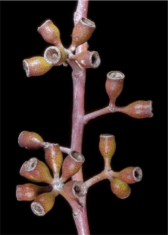 Fruit of Eucalyptus celastroides subsp. celastroides at Rowles Lagoon, 60 km NNW of Coolgardie, Western Australia